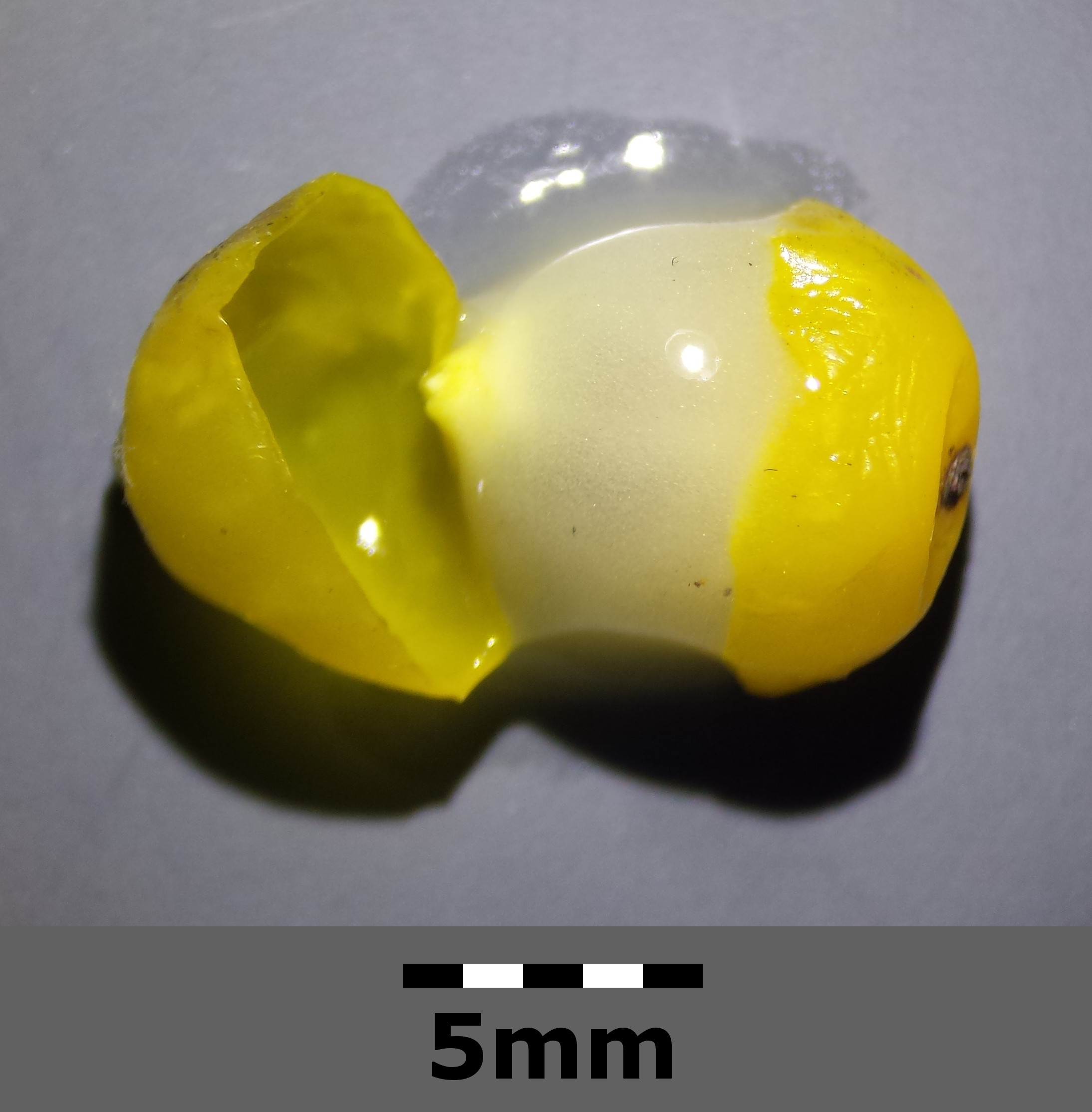 Fruit Taxon: Loranthus europaeus (sensu Fischer et al. EfÖLS 2008 ISBN 978-3-85474-187-9) Location: Haulesbergen, district Mistelbach, Lower Austria - ca. 200 m a.s.l. Habitat: Quercus sp.